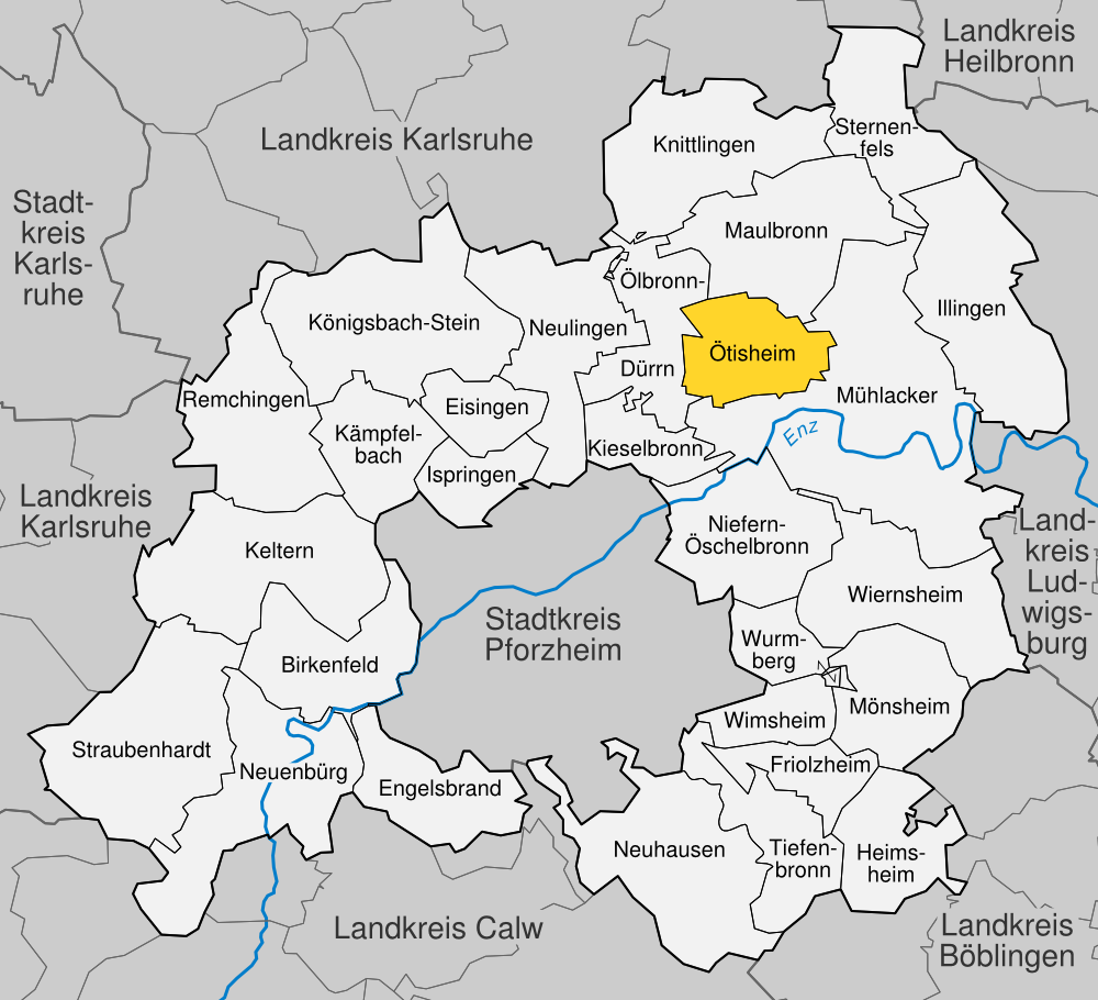 position of Ötisheim within distict of Enzkreis, Baden-Württemberg, Germany